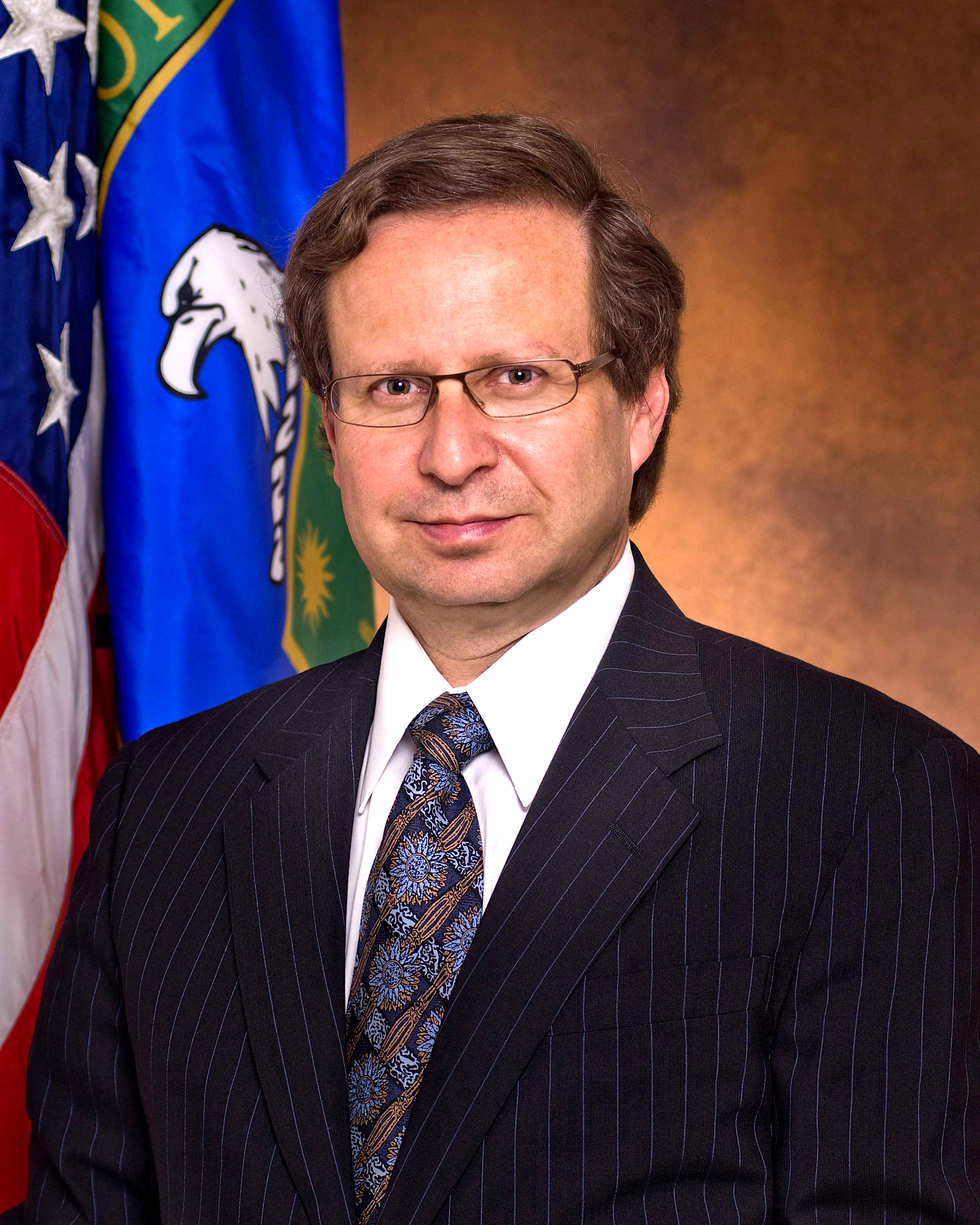 Official portrait of Under-Secretary for Science of the United States Department of Energy Steven E. Koonin.